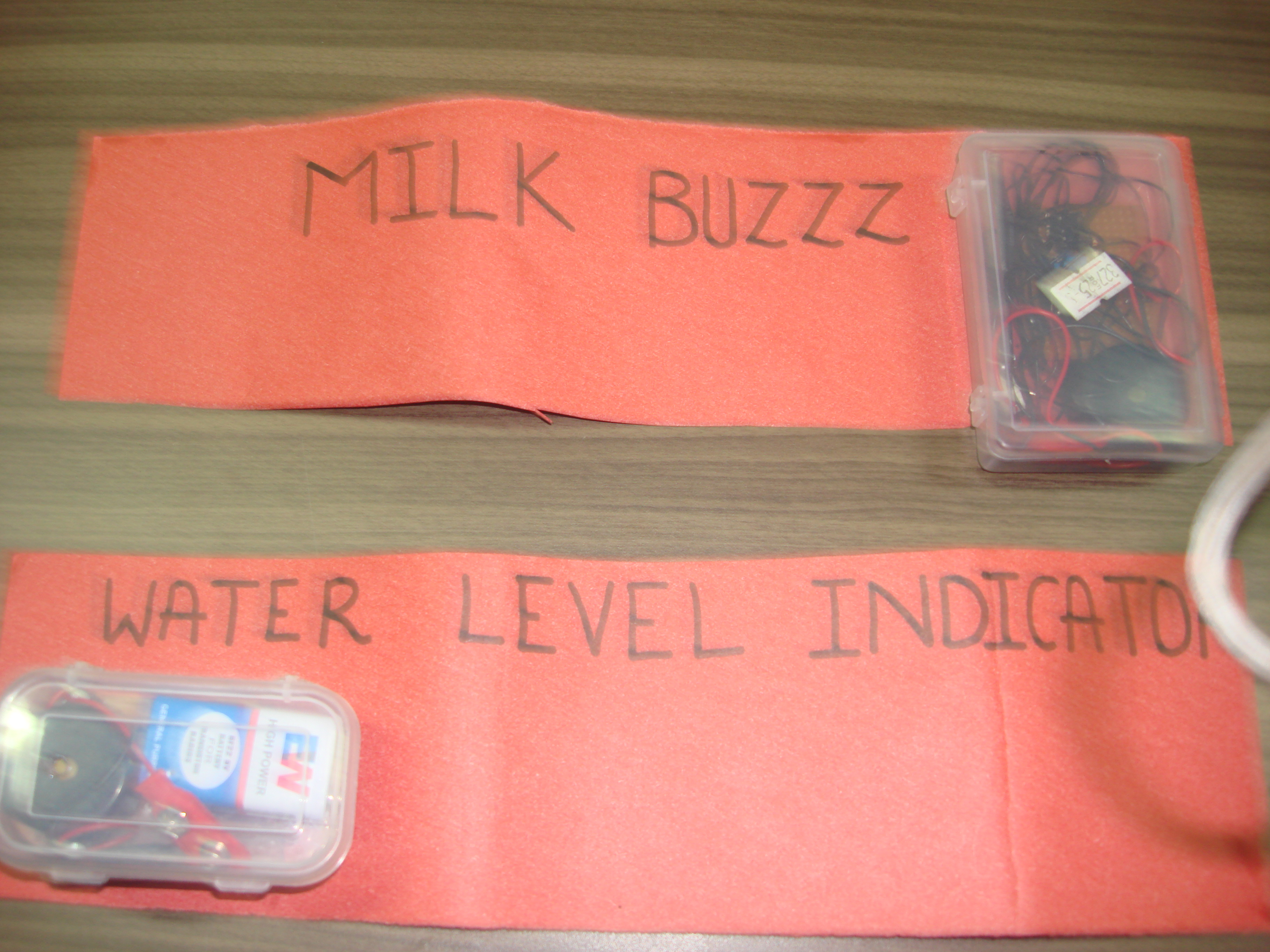 products developed by e-cell